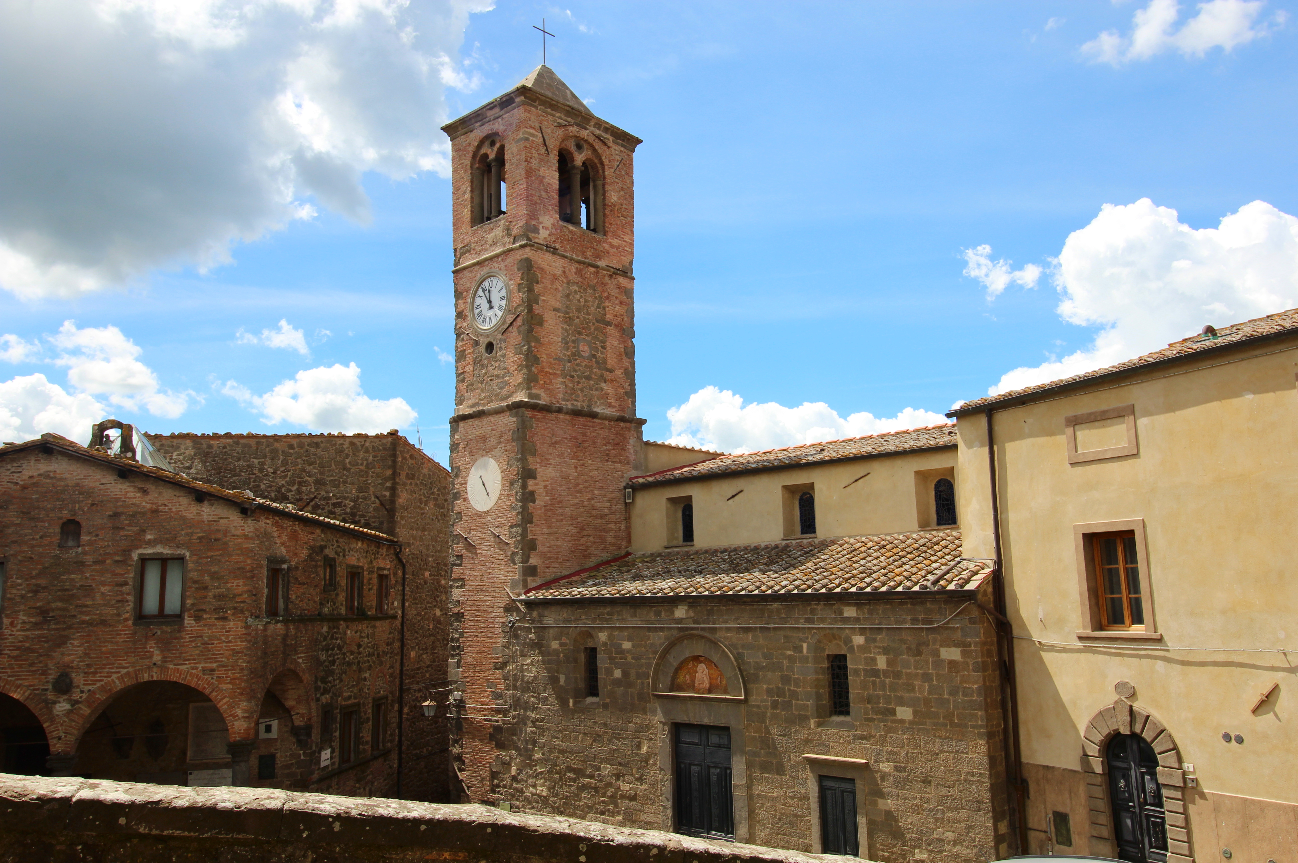 Church San Biagio, historical center of Montecatini Val di Cecina, Province of Pisa, Tuscany, Italy